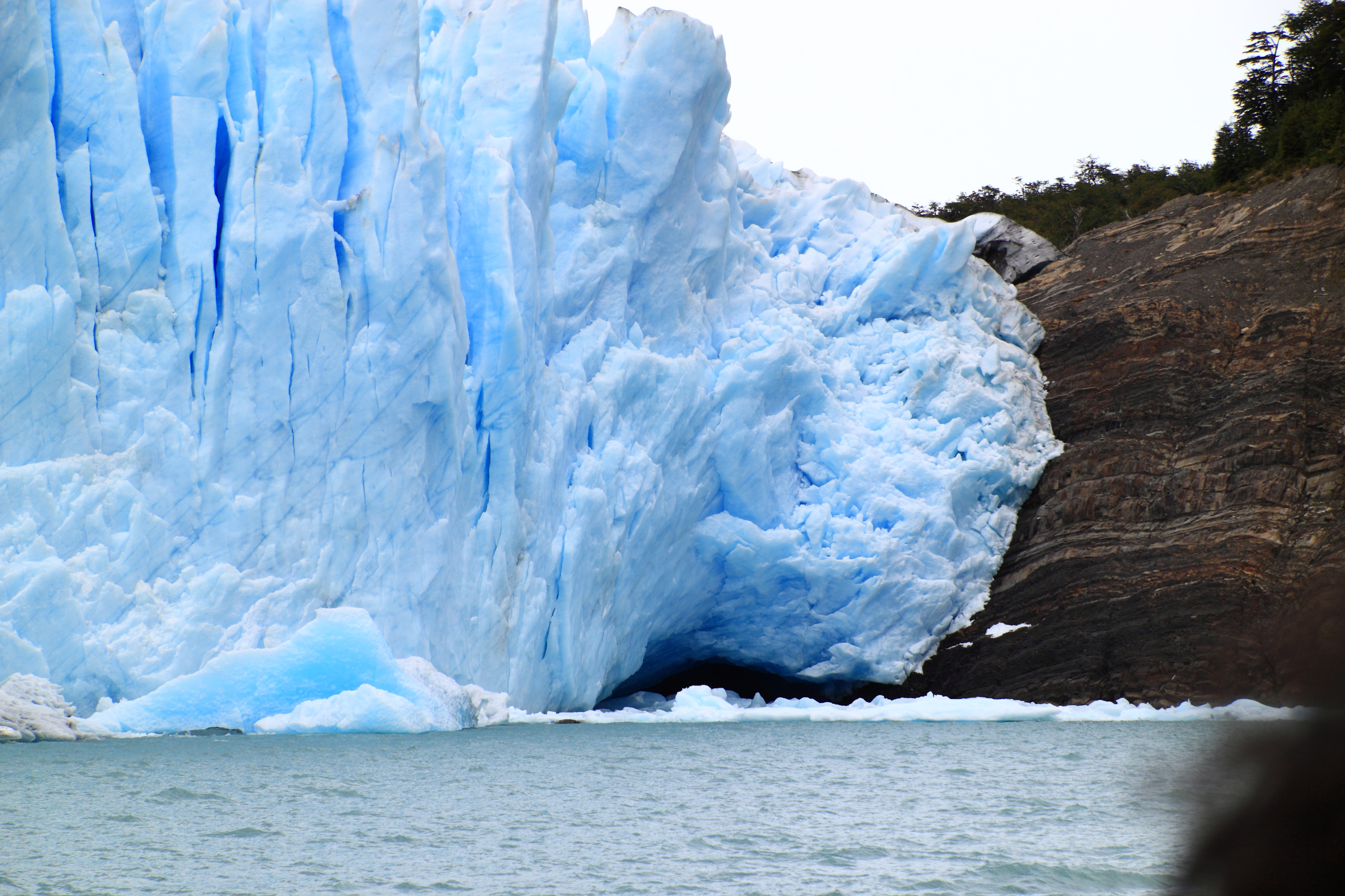 Please, have this description accessible to all by translating it in different languages.